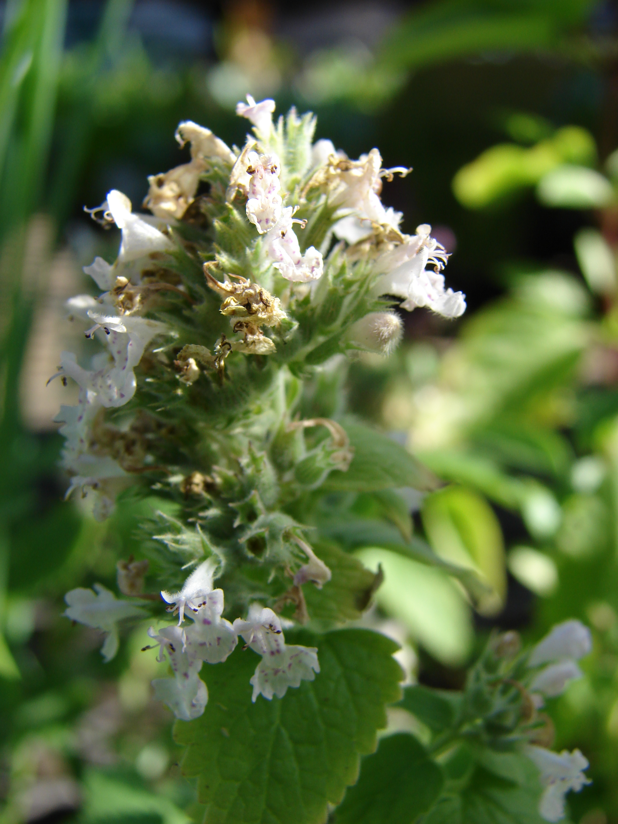 Nepeta cataria (flowers). Location: Maui, Lowes Garden Center Kahului